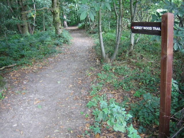 Norsey Woods, Billericay. Burial mounds still exist in Norsey Woods evidencing its occupation in the Bronze and Iron Ages. Now, a recreation area managed by Basildon Council. A quite delightful place for a walk.